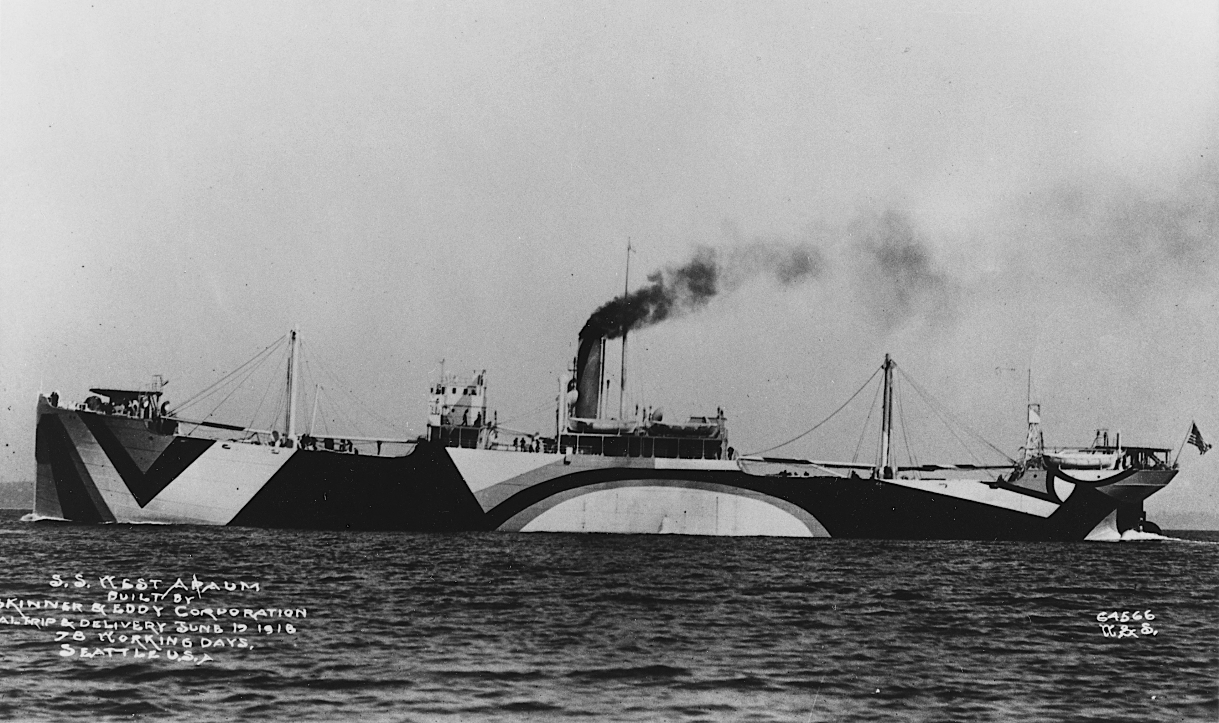 SS West Apaum (American Freighter, 1918) Underway during builder's trials, off Seattle, Washington, on 19 June 1918. She was constructed in 78 working days by the Skinner & Eddy Corporation, of Seattle. This steamship was acquired by the Navy on 20 June 1918 and placed in commission as USS West Apaum (ID # 3221). She was returned to the U.S. Shipping Board on 25 July 1919. Note her "dazzle" type pattern camouflage. The original print is in National Archives' Record Group 19-LCM. U.S. Naval Historical Center Photograph.